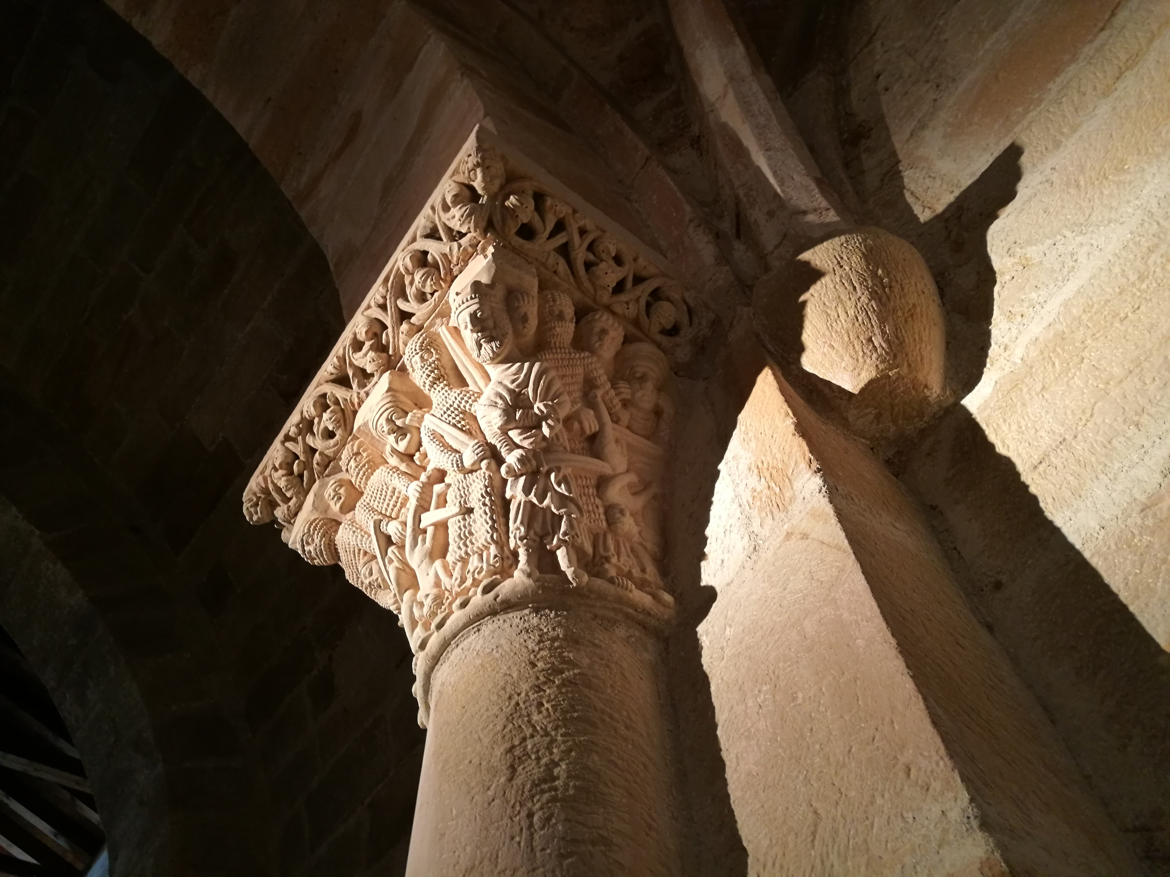 Romanic sculpture in Santa Cecilia Church in Aguilar de Campoo (Palencia, Spain)